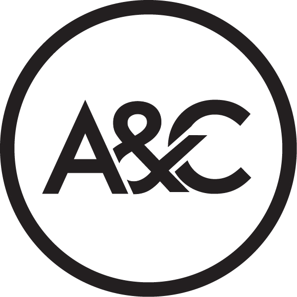 Arts & Crafts